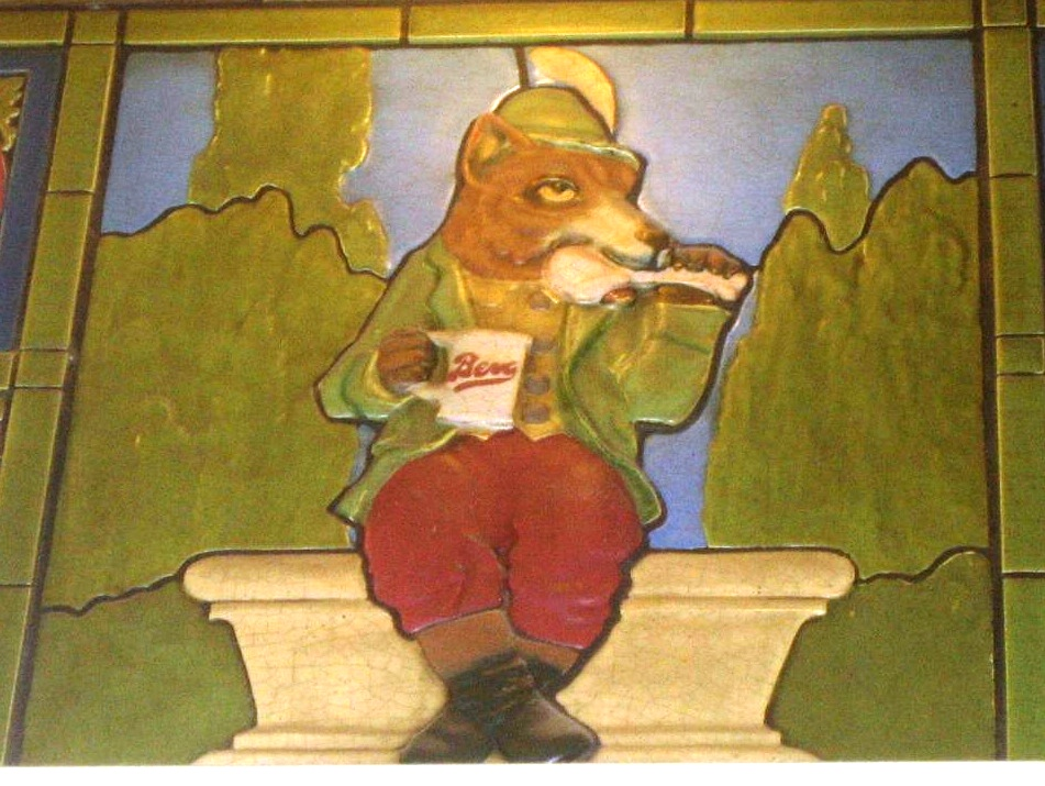 Renard the Fox with a mug of Bevo. Detail of early 20th century decoration in the Budweiser Brewery in St. Louis Missouri.